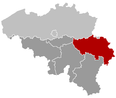 Map of Liege, Belgium